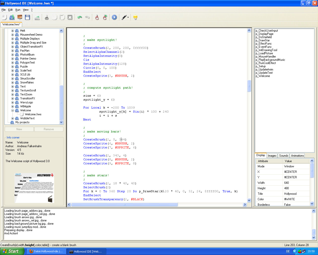 Screenshot of the Hollywood IDE running on Windows XP